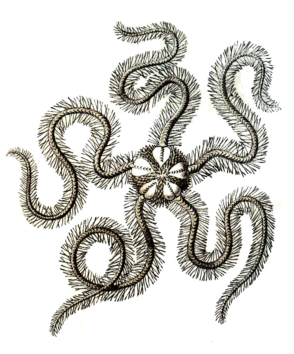 Brittlestar drawing from Ernst Haeckel's Kunstformen der Natur (1904)